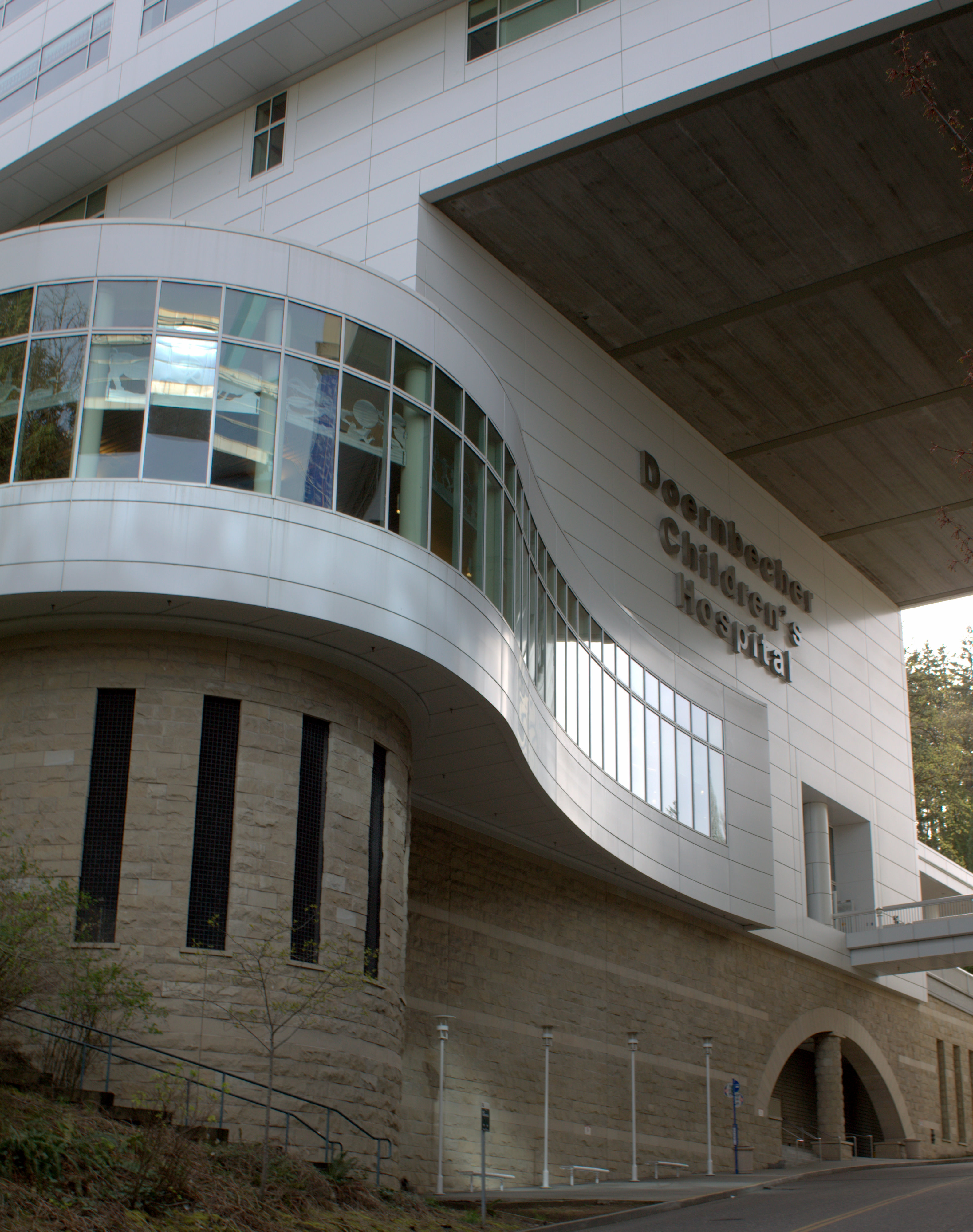 Doernbecher Children's Hospital in Portland, Oregon, part of Oregon Health & Science University